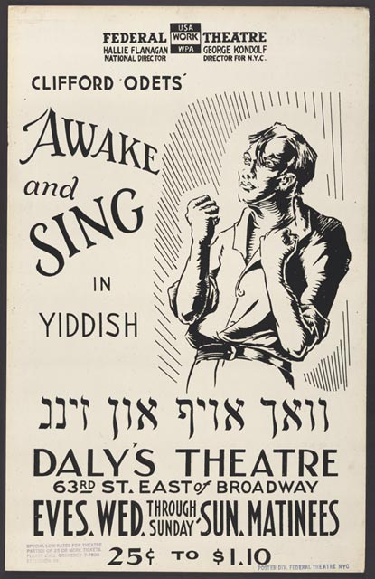 Poster for Federal Theatre Project presentation of "Awake and Sing!" at Federal Theatre, Daly's Theatre, 63rd Street, East of Broadway, New York City. Yiddish language adaptation by Chaver Paver.